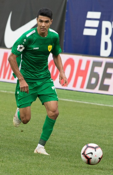 Dostonbek Khamdamov with FC Anzhi Makhachkala in a game against FC Dynamo Moscow.